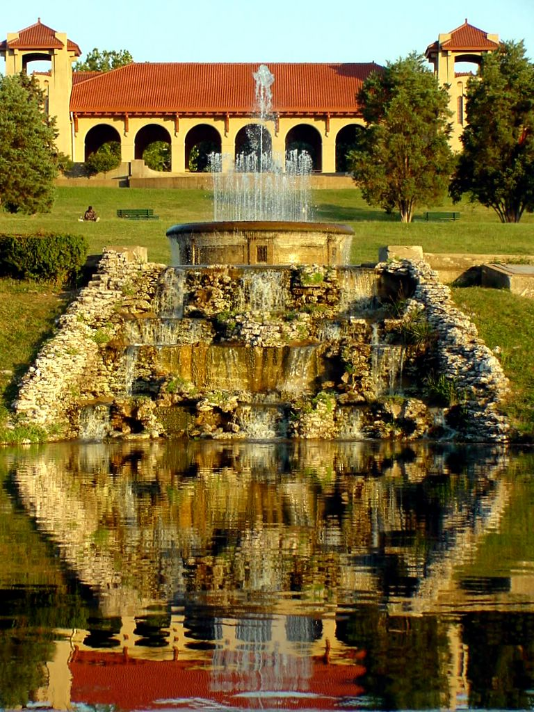 Government Hill in Forest Park in St. Louis, Missouri as it once appeared, with the World's Fair Pavilion at the top of the hill. The hill has changed and the fountain replaced with a different fountain since this picture was taken.